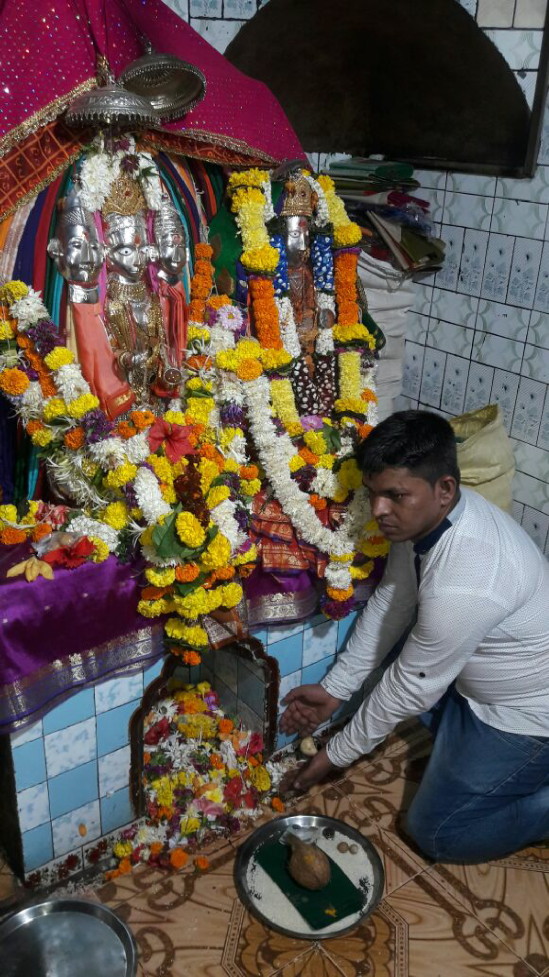 Aryadurga devi - Navadurga devi, devihasol